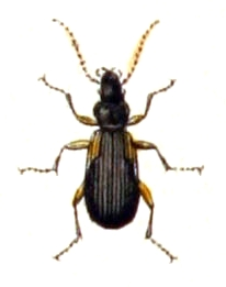 Cymindis humeralis, from Calwer's Käferbuch, Table 5, Picture 11. Taxonomy was updated to 2008, using mostly the sites Fauna Europaea and BioLib. Please contact Sarefo if the determination is wrong!